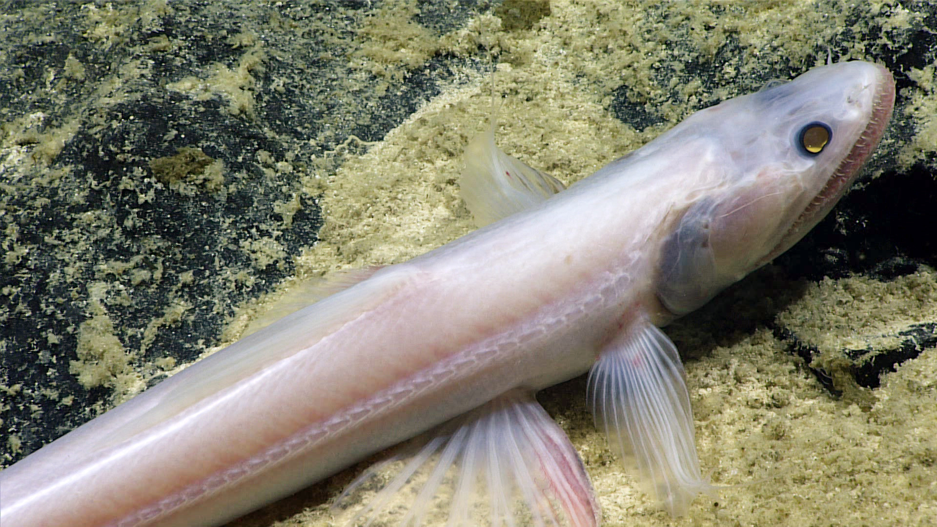 This deep-sea lizardfish ('), seen on Dive 08 of the Mountains in the Deep expedition, is a top predator on the abyssal plains. Picture taken in the abysses of the Pacific ocean by NOAA mission Okeanos Explorer in 2017.